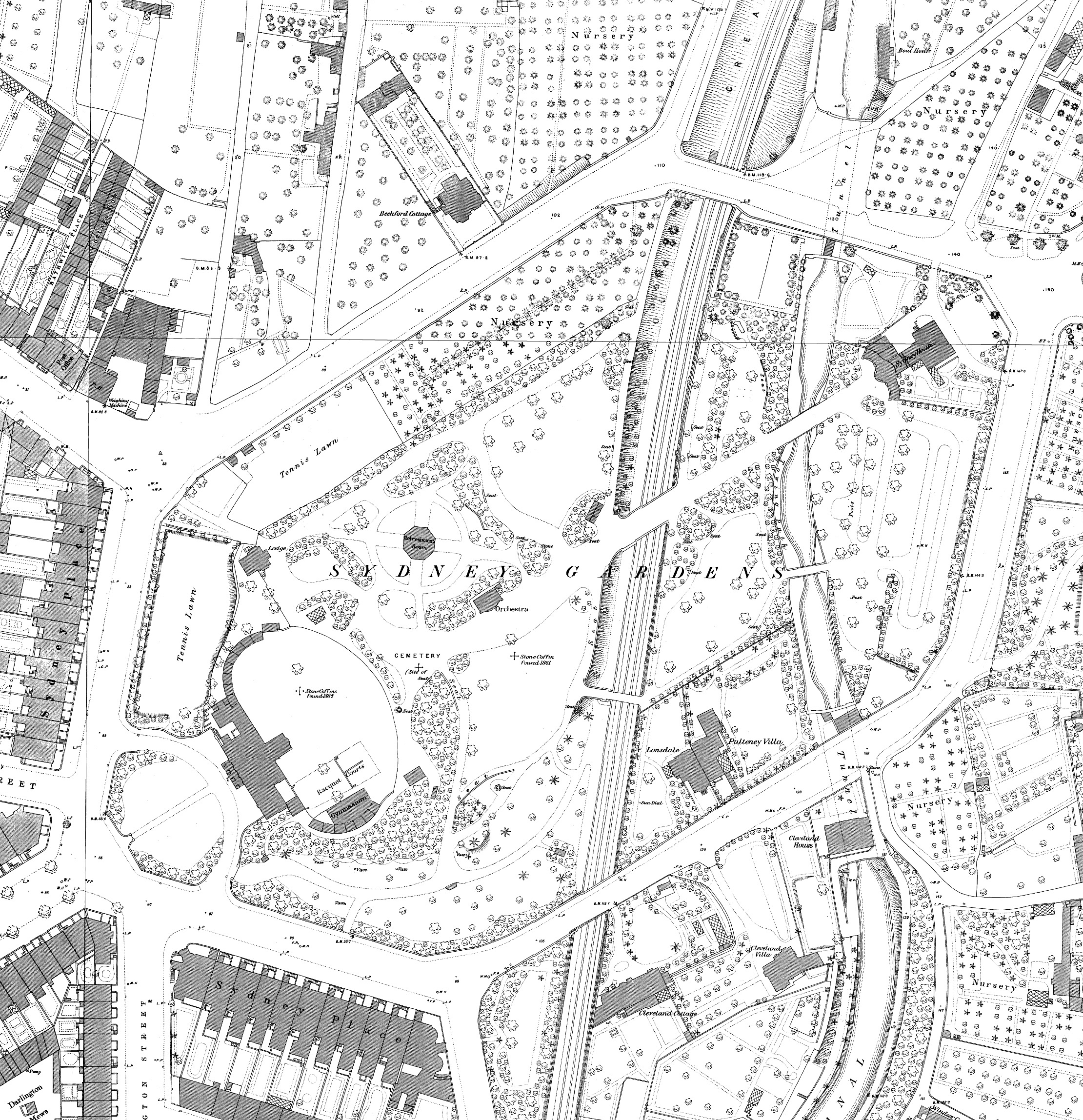 Old Ordnance Survey map showing Sydney Gardens in Bath